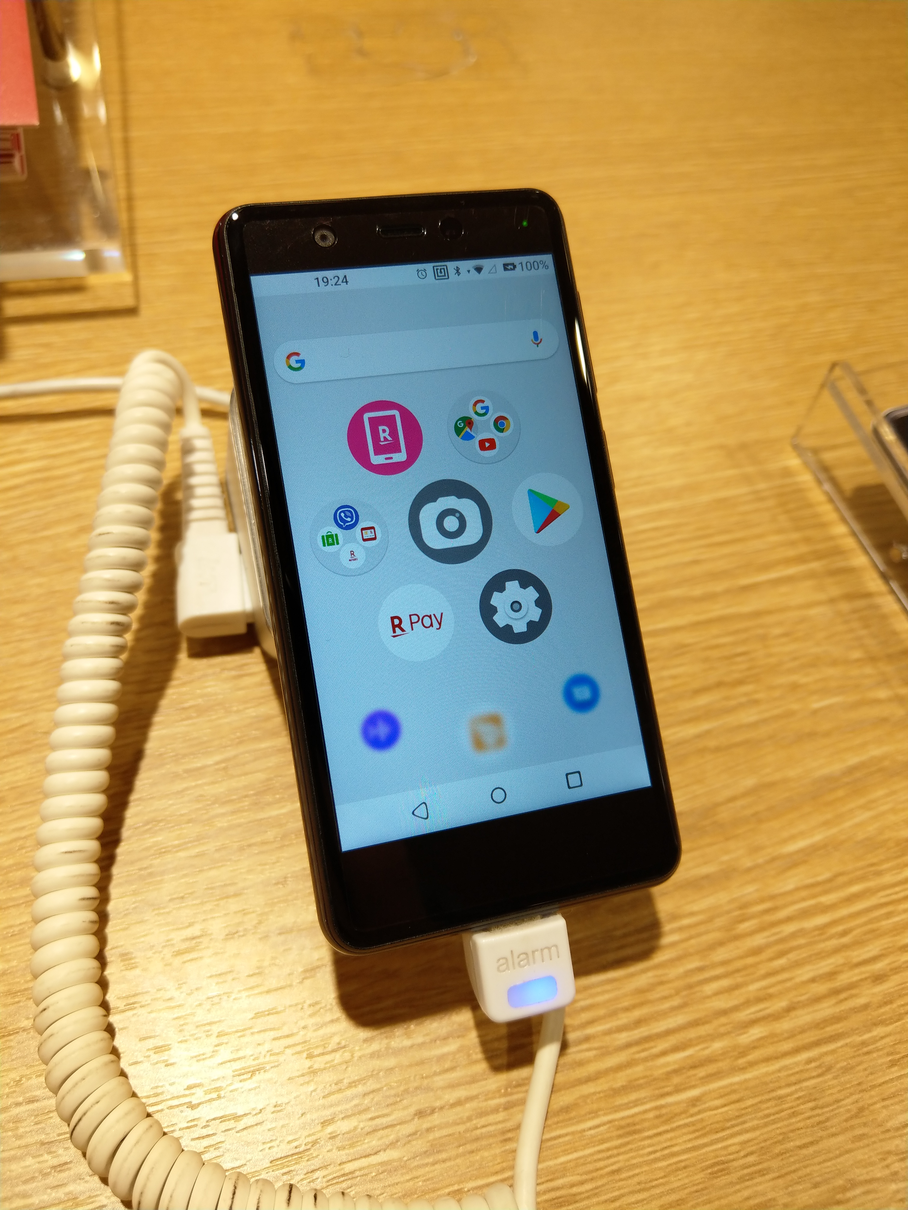 This is Photo of Rakuten Mini, a smartphone on display side. The color is "Night Black". It was displayed in Rakuten Mobile Nagoya-Sakae shop.